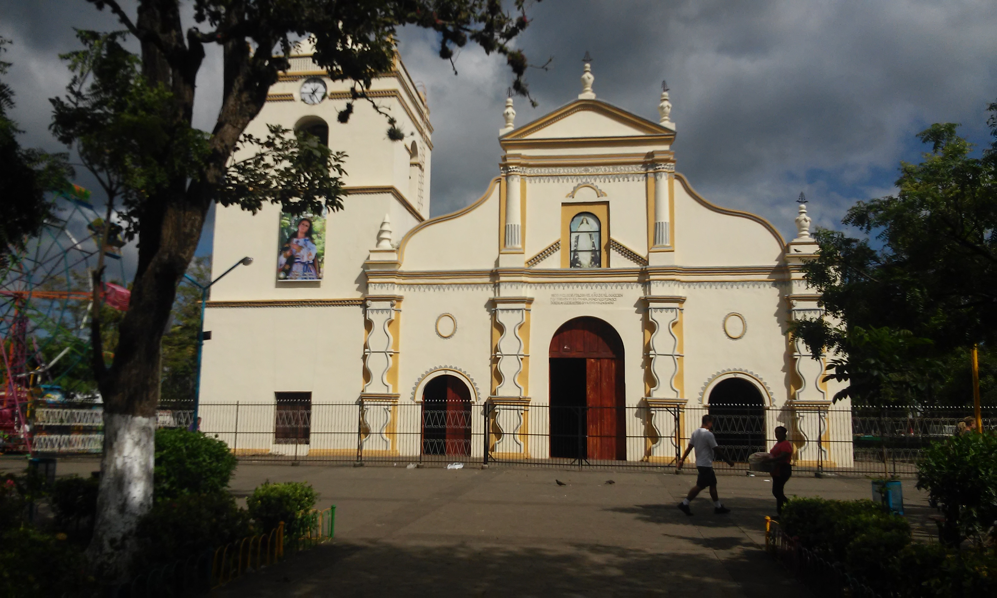 The Masaya church, oficially known as Our Lady of the Assumption Parish Church, located at the Central Park of the City of Masaya, Nicaragua.